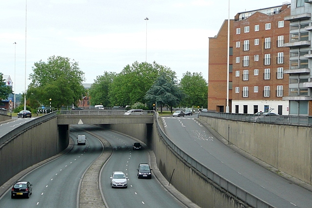 This is Reading's inner ring road, the IDR as it is usually known. It was built in 1970 and many houses were demolished to create it, as was the planning norm then. There have been various plans to break what is now a collar throttling the expansion of Reading town centre. To the left is the Chatham Place development, and one plan was to deck over this section to create an urban square, but the slip roads would have caused a problems. Another plan was to make the route one-way, giving extra space for cycles and pedestrians, but this has also been abandoned. To the right is Adelphi House, the Reading job centre. Mentioning this probably means I shall be emailed with lots of questions about employment now!